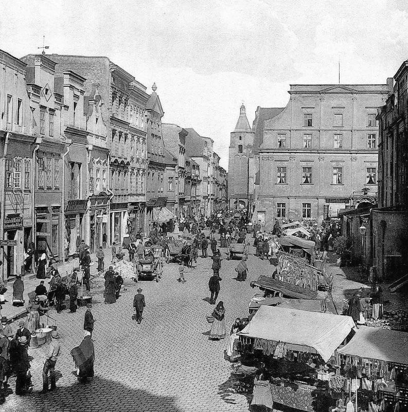 Northern side of Opole's Town square in the end of XIX century.